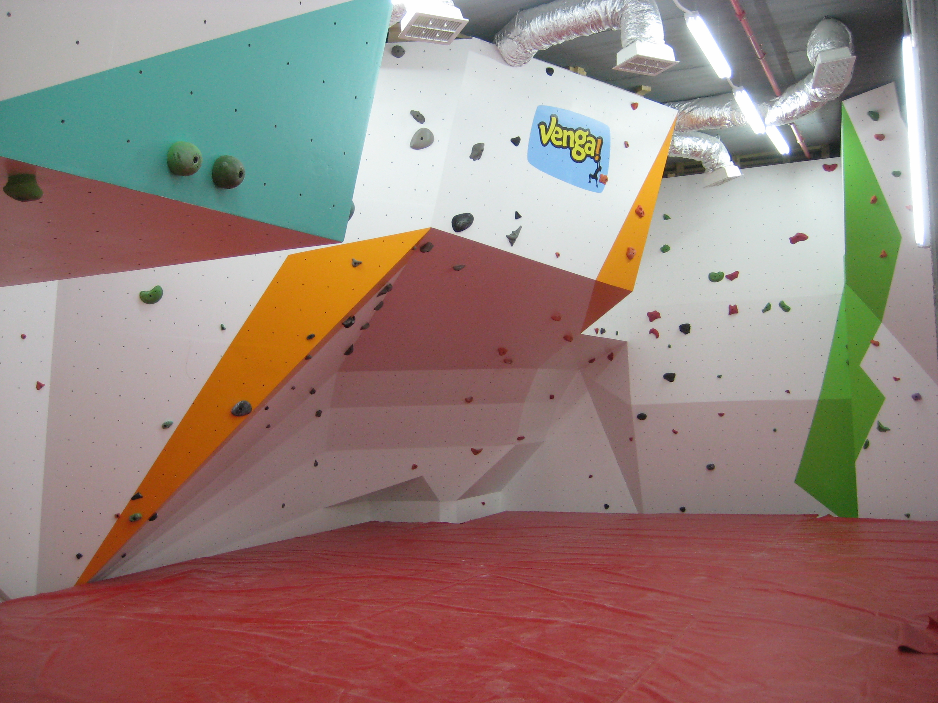 A photo of the cave area inside Venga! Climbing Gym - Petah Tiqwa, Israel